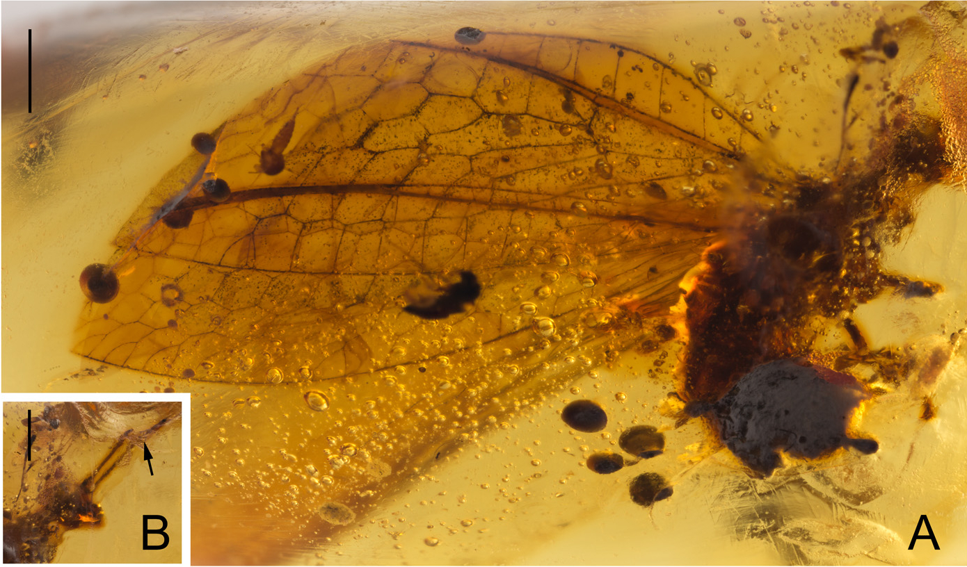 Photographs of Parabaisochrysa xingkei, holotype. A. Habitus, lateral view; Scale bar: 1.0 mm.